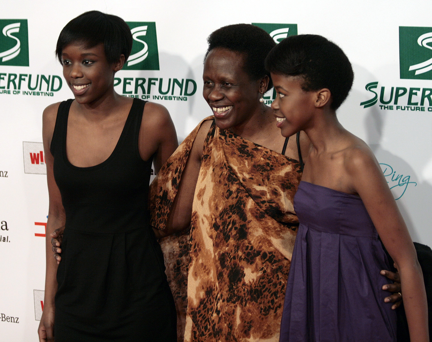 Esther Mujawayo and two of her daughters at the Women's World Award 2009 (Wiener Stadthalle, Vienna, Austria).